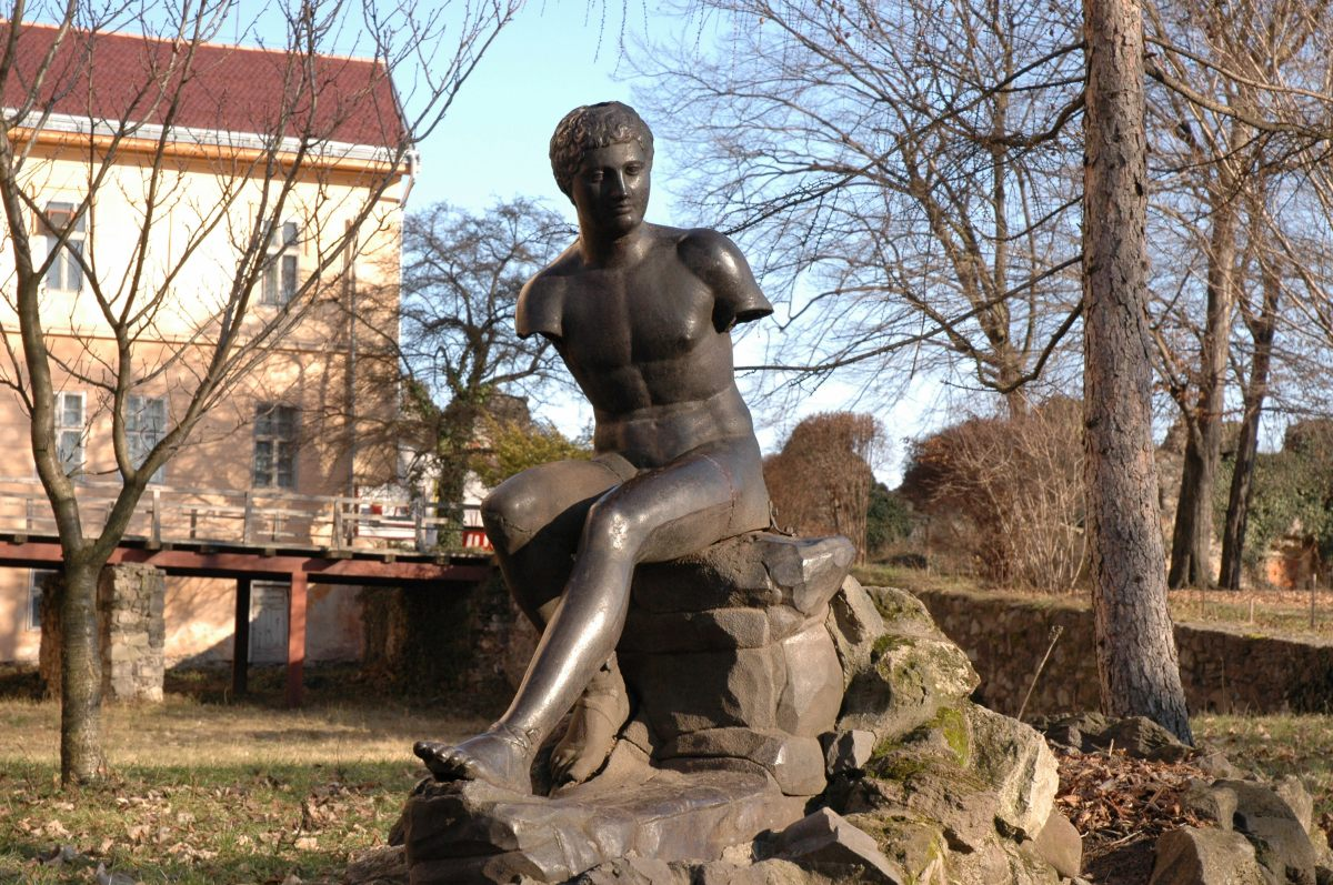 An iron sculptur (used for heating as a stove) at the castle courtyard in Uzhhorod